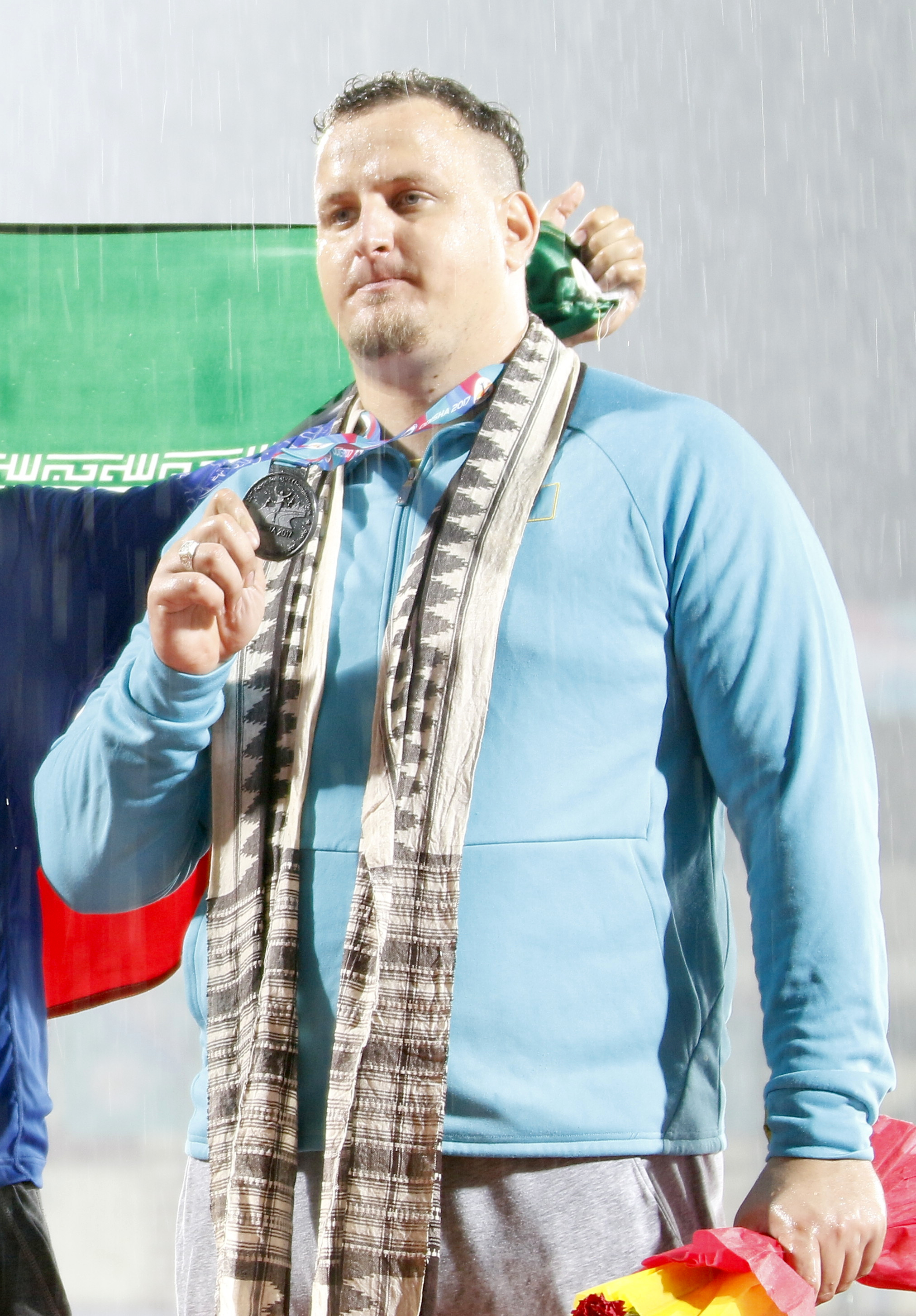 Athletes during 22nd Asian Athletics Championships in Bhubaneswar.